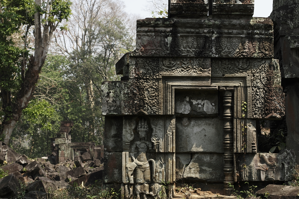 Wall with carvings at the Preah Khan of Kampong Svay, Cambodia